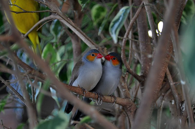 Two Orange-cheeked Waxbill (Estrilda melpoda)